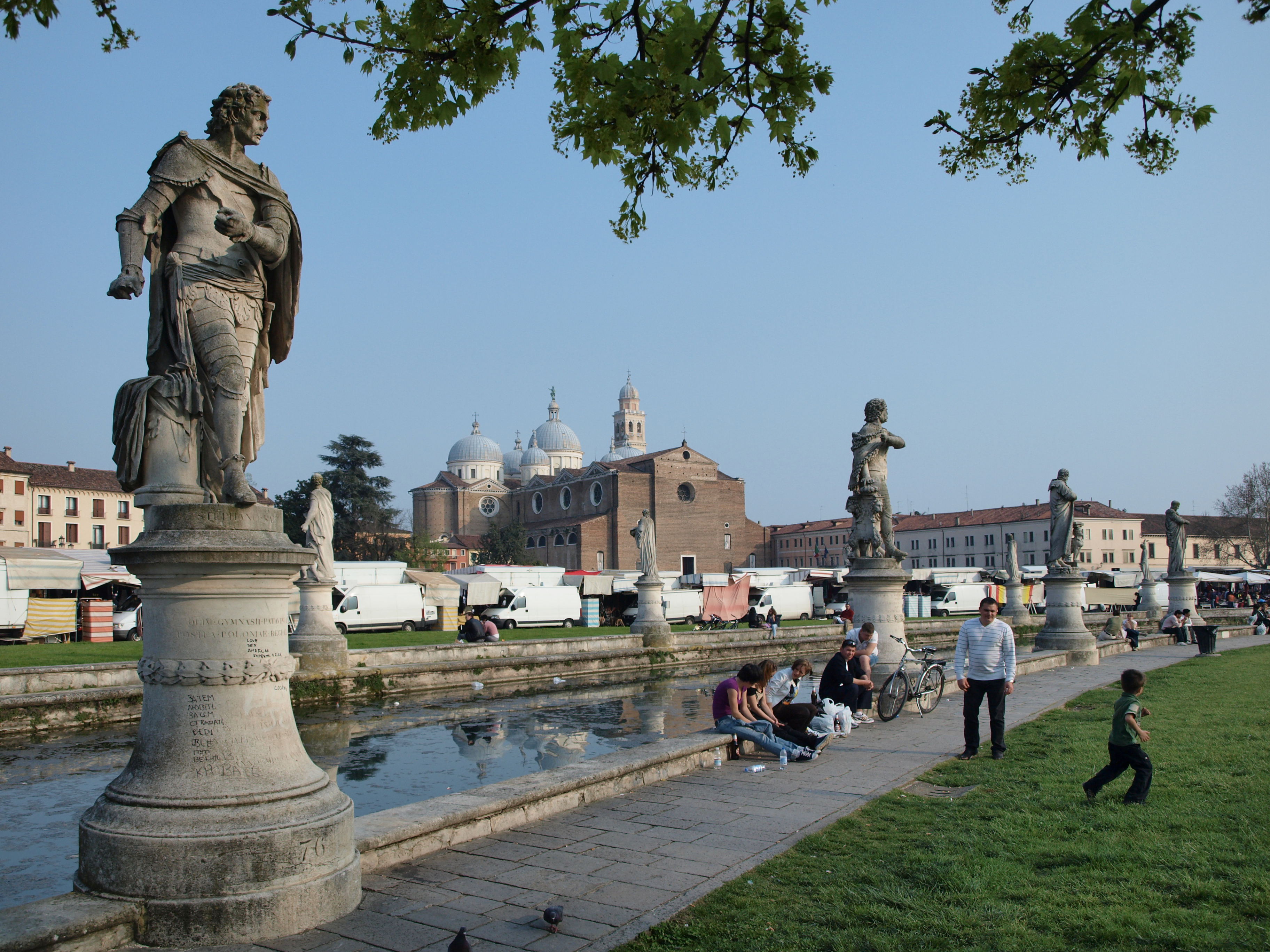 Square Prato della Valle in Padova with basilica Santo Giustina in background.